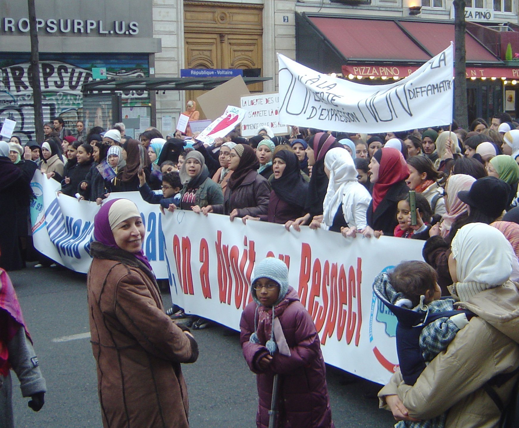 [February 11, 2006 Parisian protest against the publication of caricatures of Muhammad